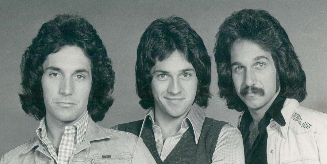 Press photo of the Hudson Brothers from 1974